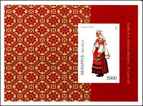 Naraŭlanski Stroj stamp